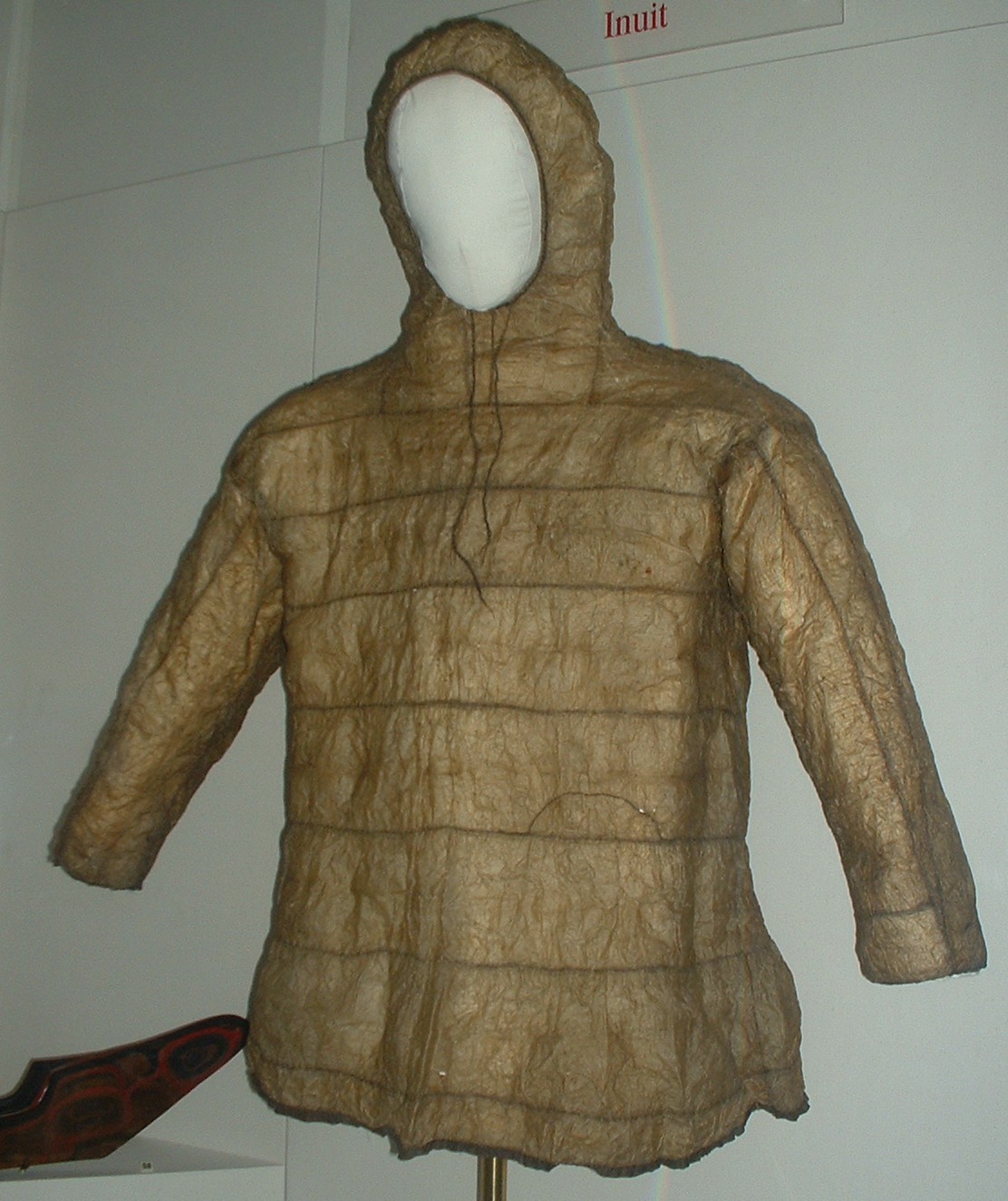 Parka (Kamleika) Inuit. Photographed at the Royal Albert Memorial Museum & Art Gallery (RAMM) on 21-Feb-06.